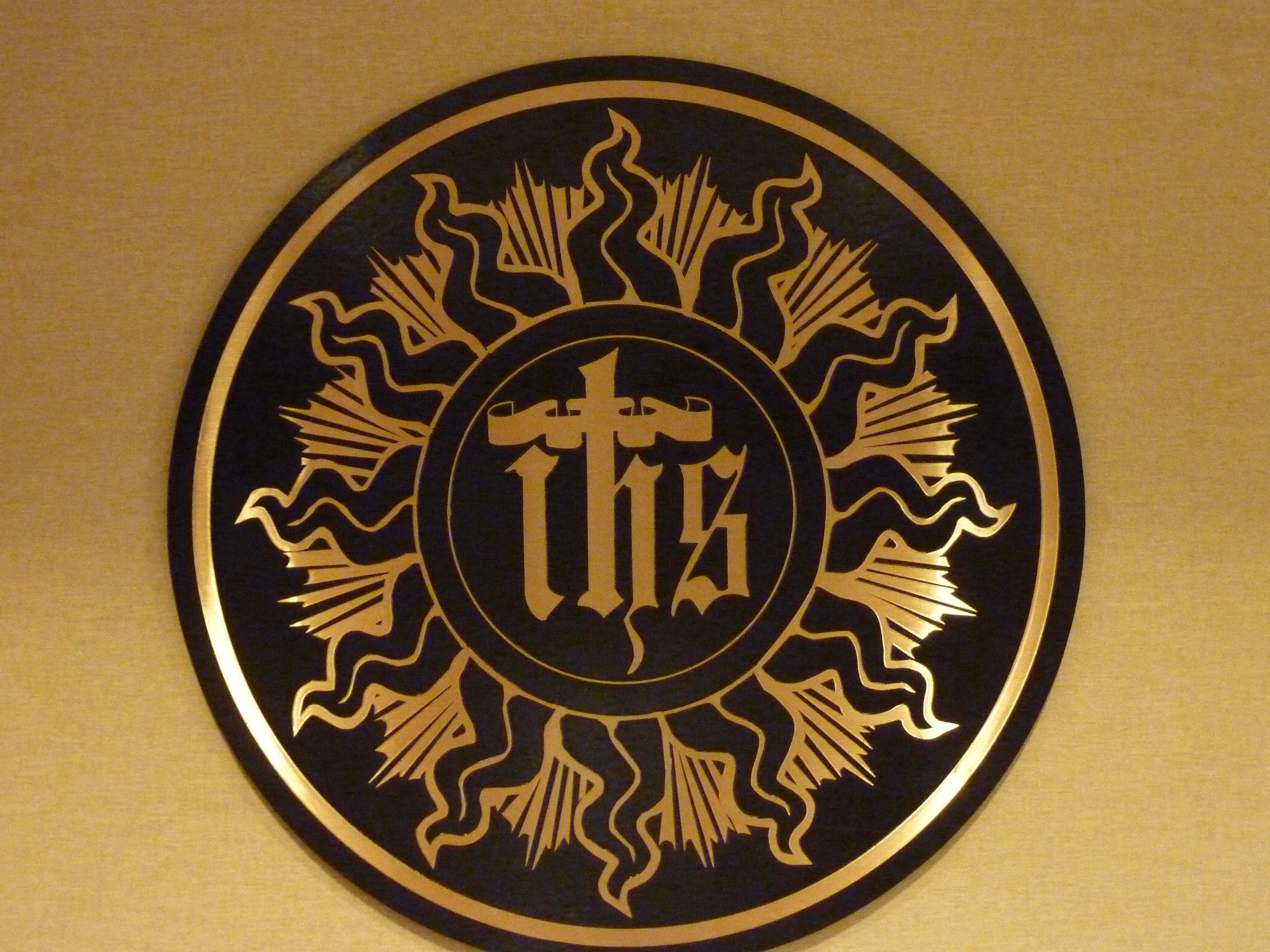 IHS in OFM Holy Name Province - San Damiano Hall Provincial Offices